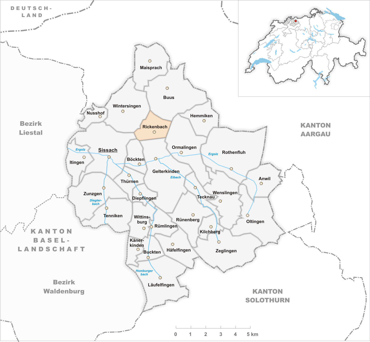 Municipality Rickenbach